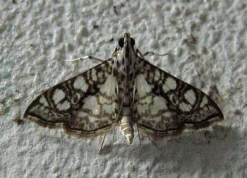 Bocchoris gueyraudi moth - (Guillermet2004) Crambidae moth, endemic in Réunion